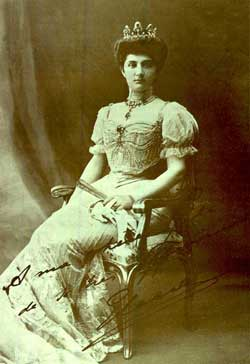 picture of Italian Queen Elena of Montenegro